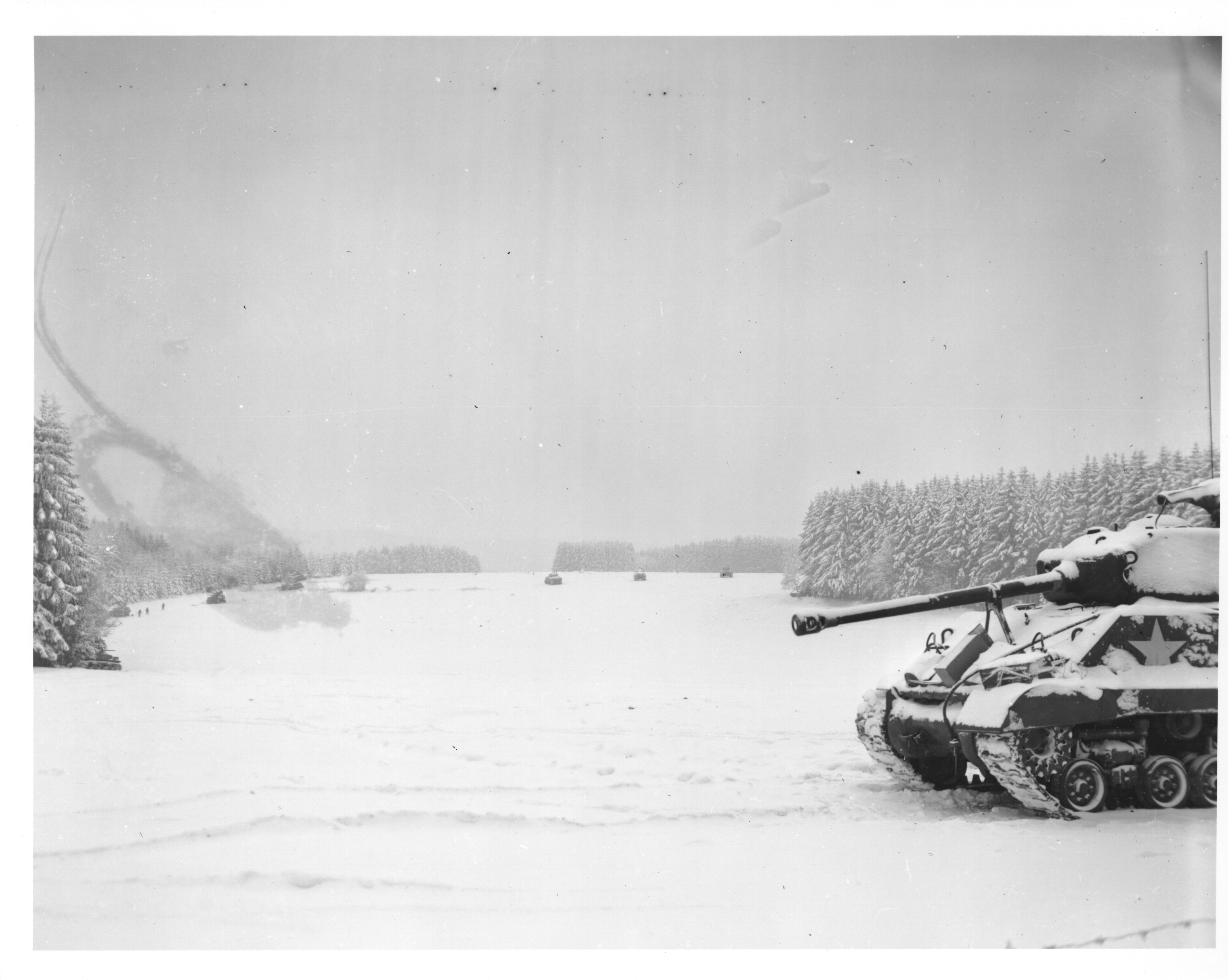 Scope and content: Original caption: Tanks of the 4th Armd. Div., ready for action in the front lines. 8 January 1945. Bastogne, Belgium.